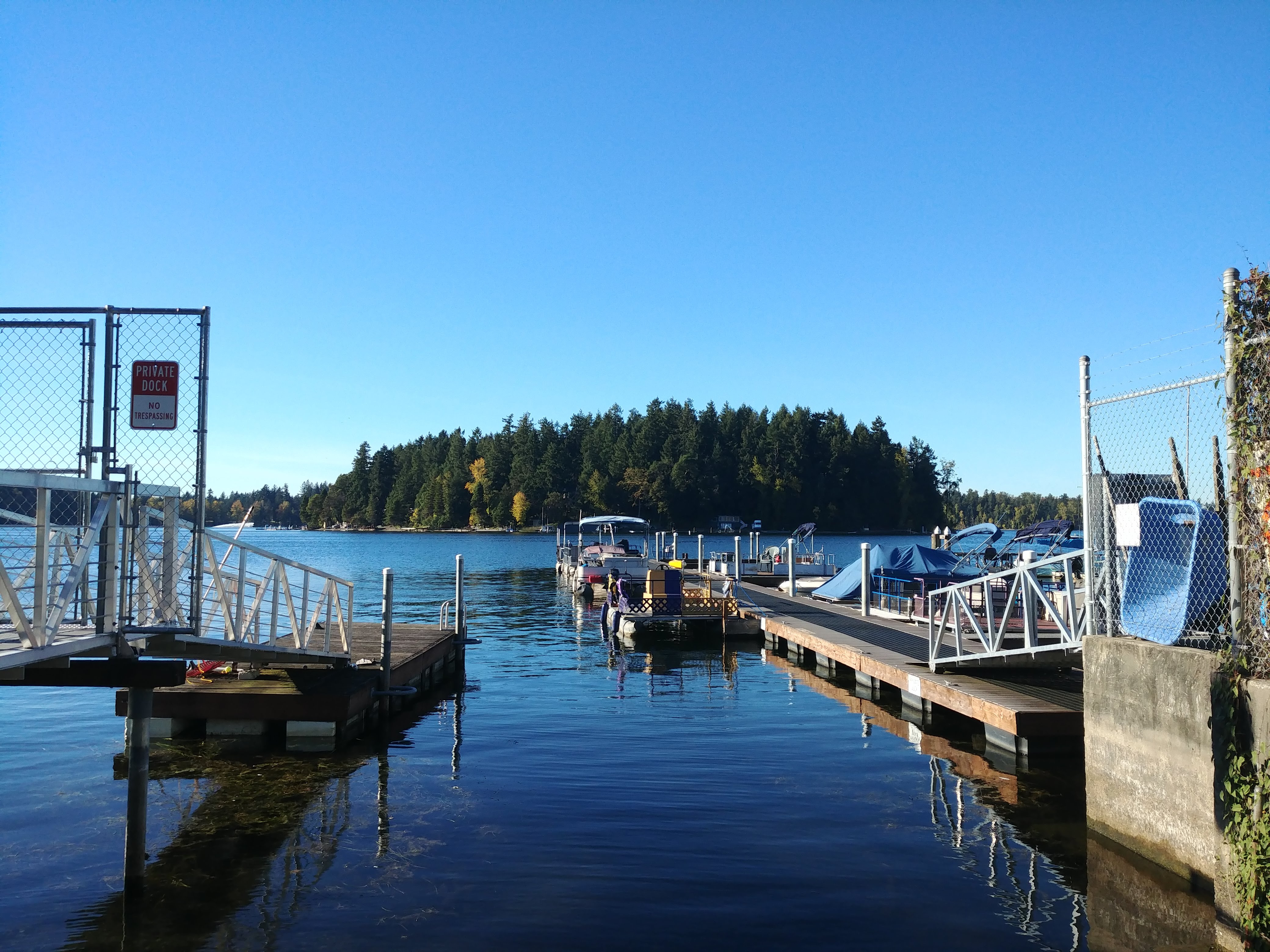 Silcox Island seen from end of public street at shore of American Lake, Lakewood, Washington